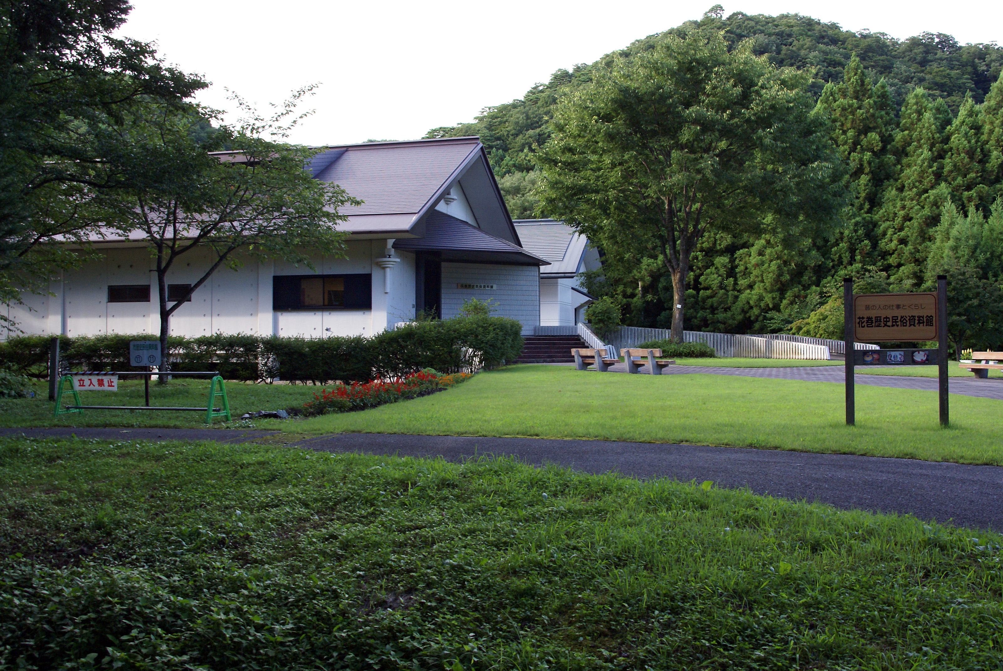 Hanamaki City Museum of History and Folklore in Hanamaki, Iwate prefecture, Japan